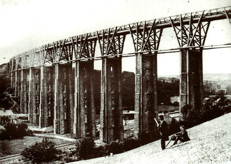 Moorswater Viaduct, Liskeard, Cornwall when a timber trestle